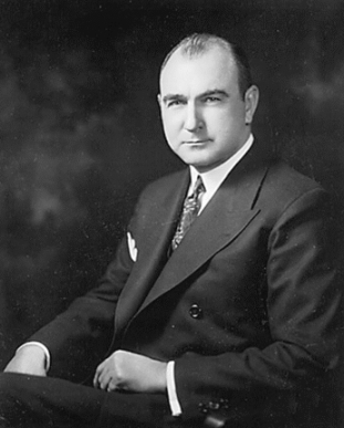 Lemuel Boulware (1895-1990) V.P. of G.E. who lent his name to "Boulwarism".